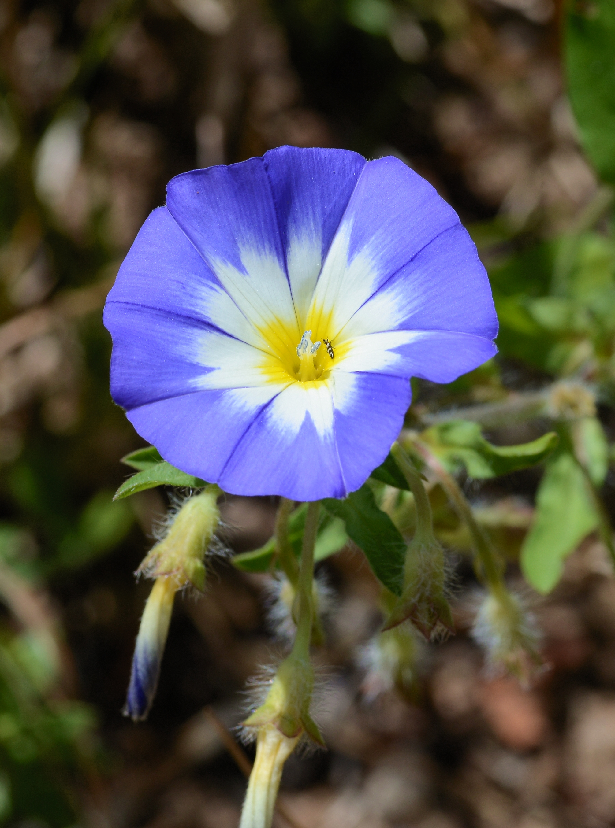 A Dwarf Morning Glory (Convolvulus tricolor)